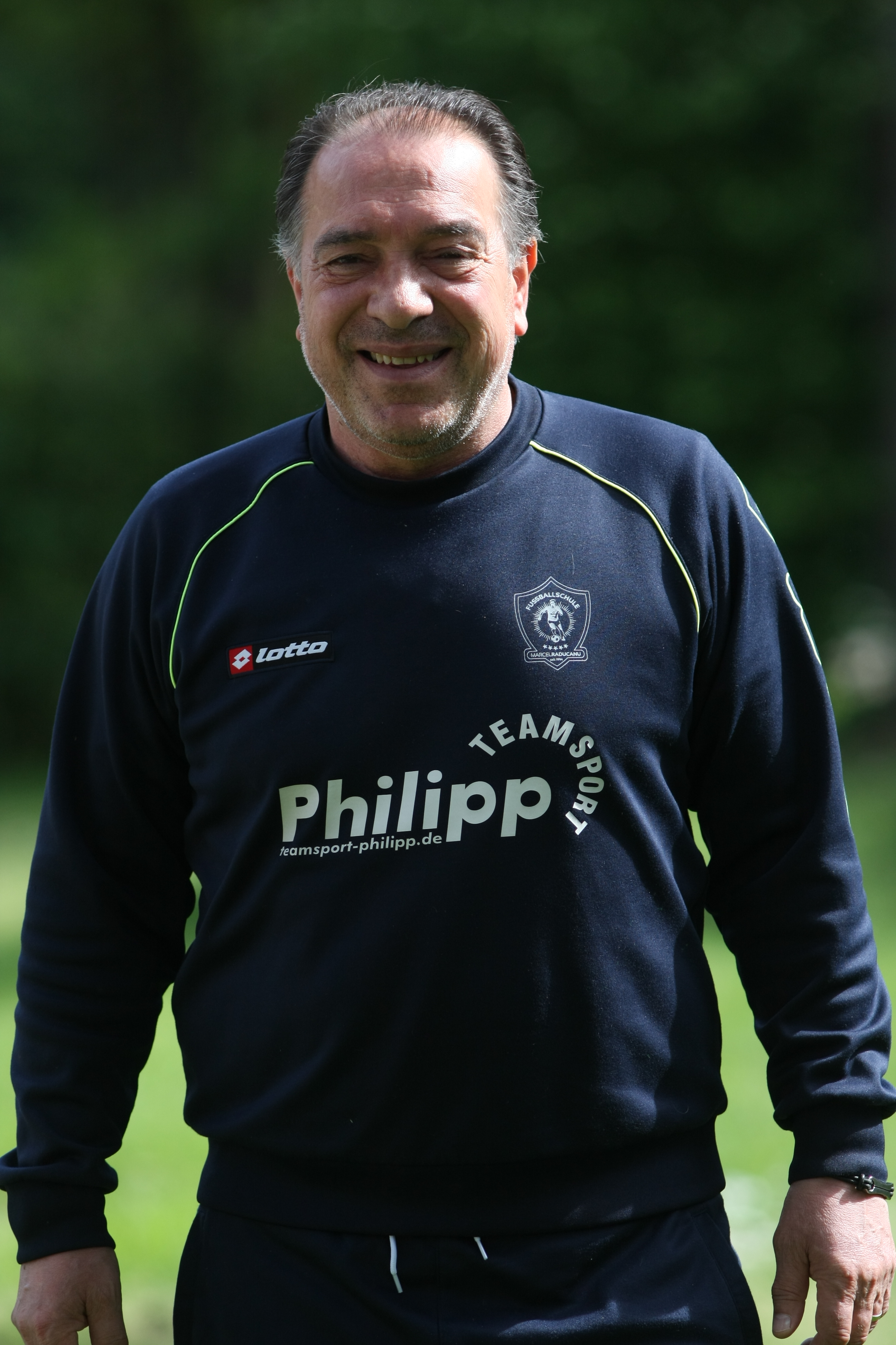 Marcel Raducanu